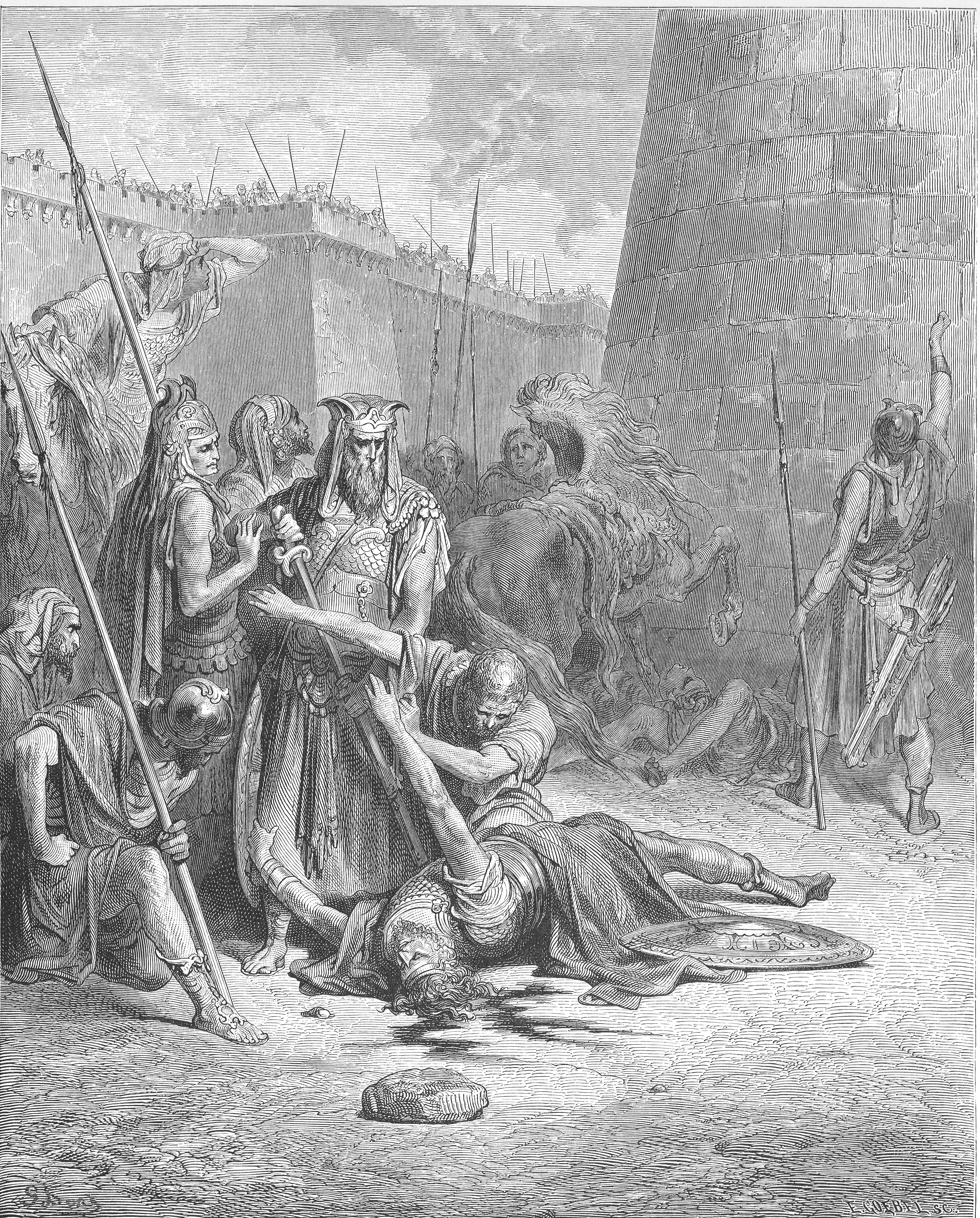 The Death of Abimelech (Jud. 9:50-56)